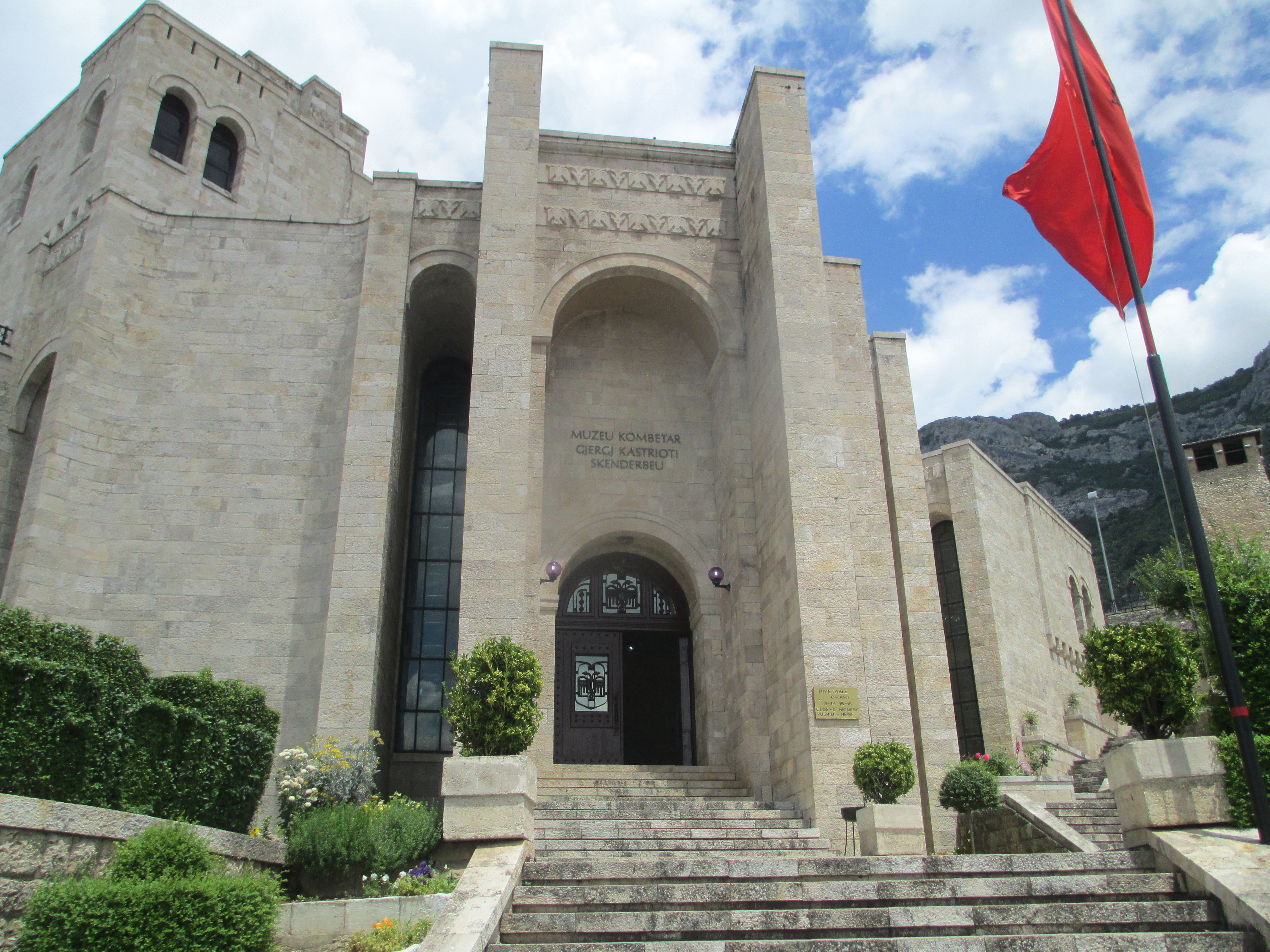 skanderbeg museum, kruje